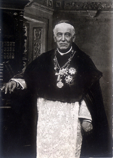 Portrait of the Mexican archbisop Pelagio Antonio de Labastida y Dávalos